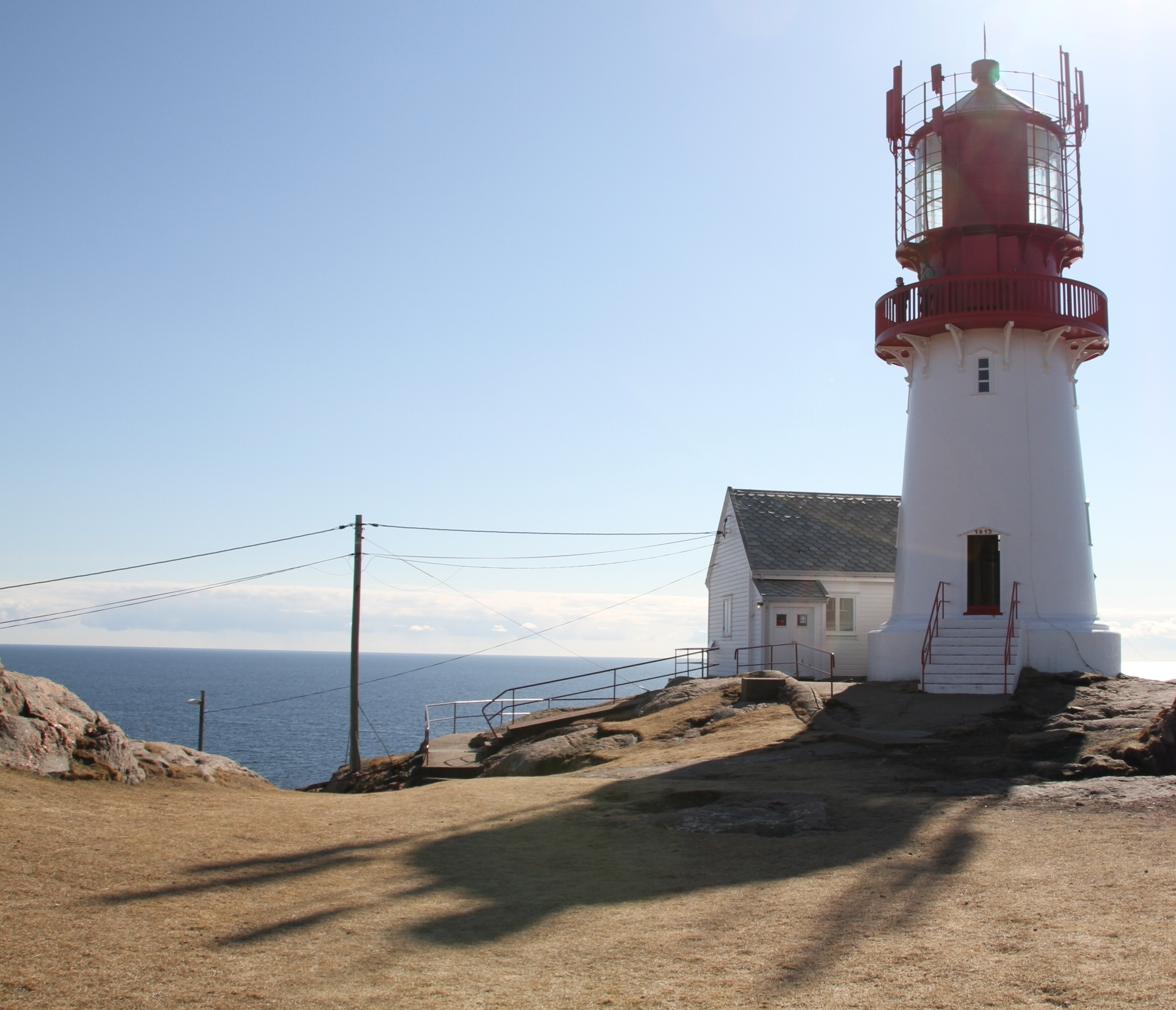 Lindesnes lighthouse, the south tip of Norway's mainland. The shadows of the base stattions at the roof are visible in the grass in front of the lighthouse.